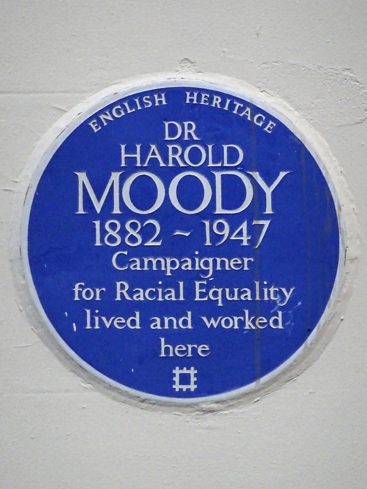 Blue plaque erected in 1995 by English Heritage at 164 Queens Road, Peckham, London SE15 2HP, London Borough of Southwark